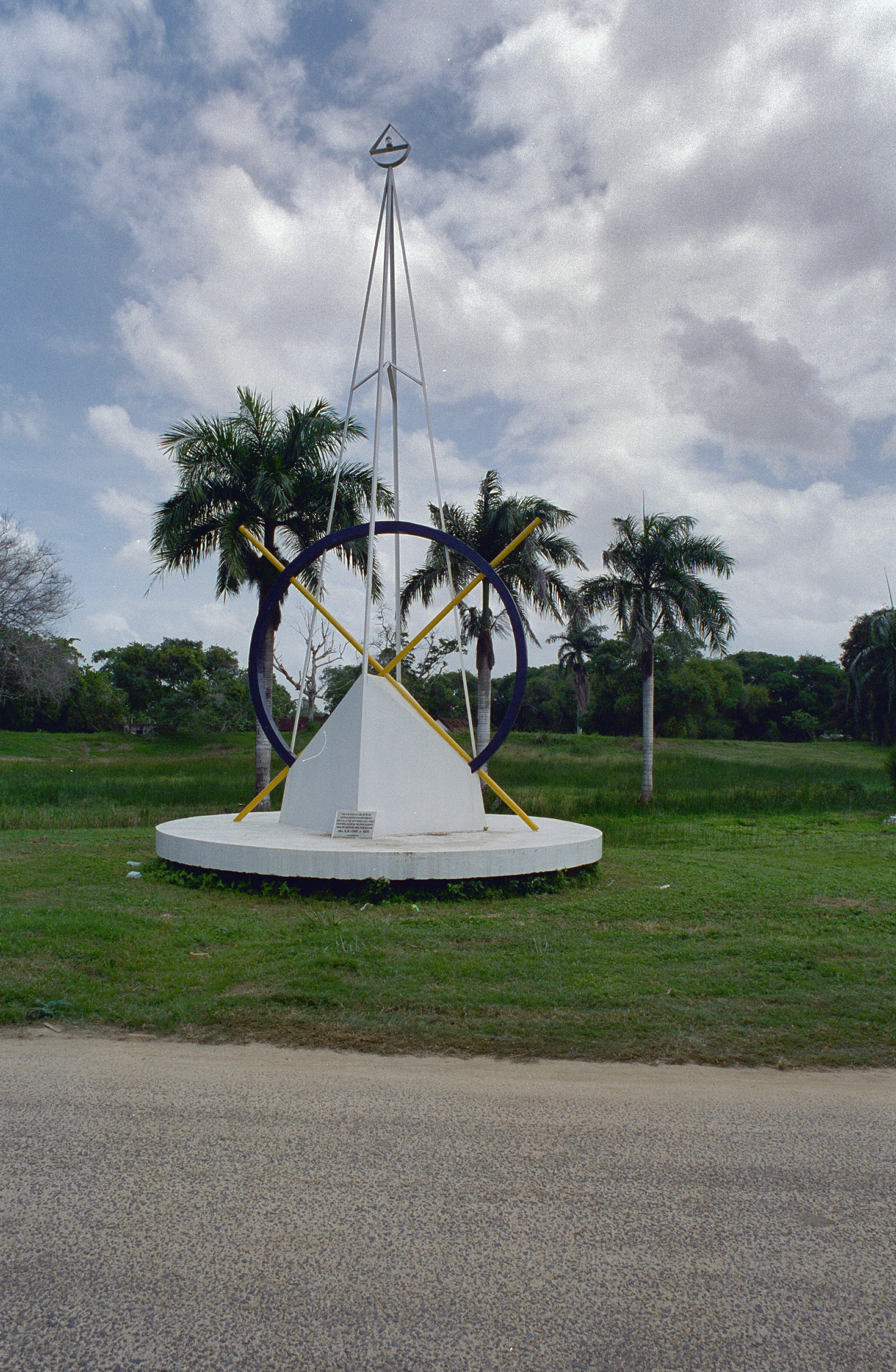 Colonial history / Memorial: "The Historical Struggle" Remembrance of the revolution on February 25, 1980 (Note: Suriname trip Loek Tangel)